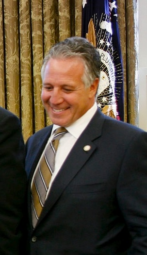 Chuck LiMandri watches President George W Bush President George W. Bush (not shown) as he prepares to sign H.R. 5683, to preserve the Mt. Soledad Veterans Memorial in San Diego, Calif., Monday, Aug. 14, 2006, at a signing ceremony in the Oval Office of the White House, which will provide for the immediate acquisition of the memorial by the United States. Not shown: Bill Kellogg, president of the Mount Soledad Association; Philip Thalheimer, chairman, San Diegans for Mt. Soledad National War Memorial; U.S. Rep. Brian Bilbray, R-Calif.; U.S. Rep. Darrell Issa, R-Calif.; U.S. Rep. Duncan Hunter, R- Calif.; and Chuck LiMandri, chief counsel, San Diegans for Mt. Soledad National War Memorial. White House photo by Paul Morse. Cropped from the original.